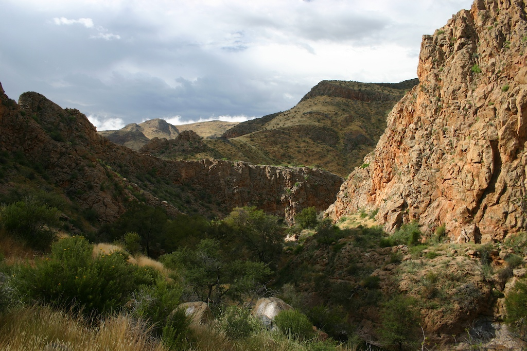 Naukluft Mountains, Waterkloof Trail